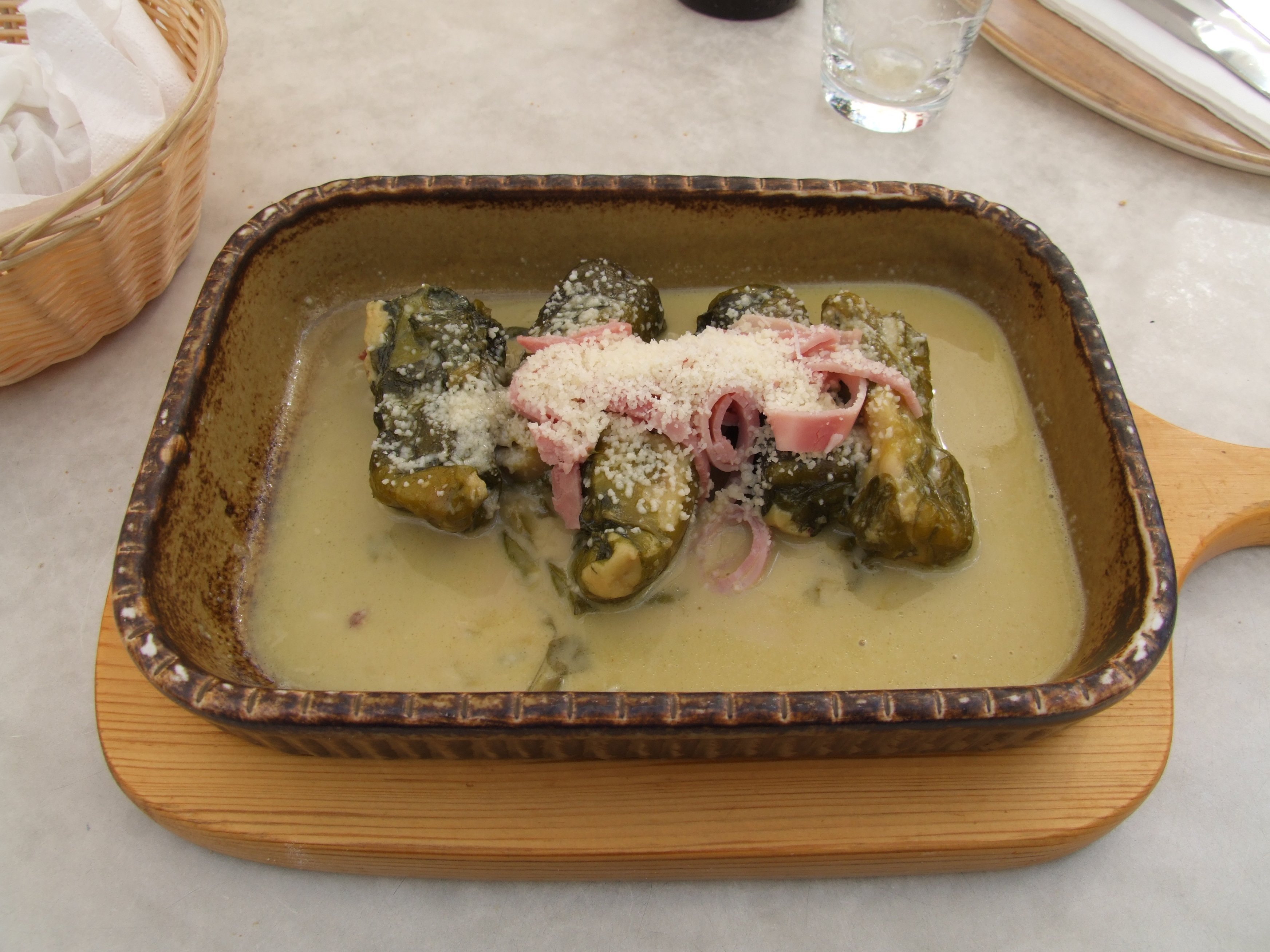 Capuns, served in Vals, Valsertal, Switzerland